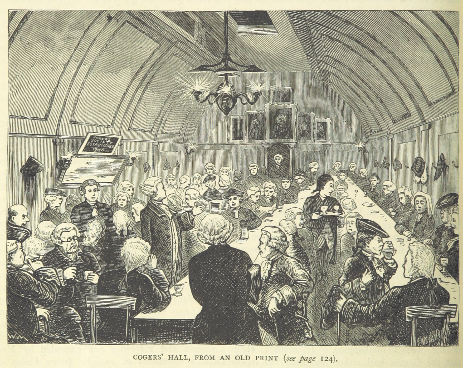 The Discussion Hall of the Society of Cogers at 10 Shoe Lane in the City of London, the home of the society from about 1850 to 1871. This image is based on an 1870 illustration [1], but the costume of the participants has been aged (anachronistically) to make the scene appear earlier.